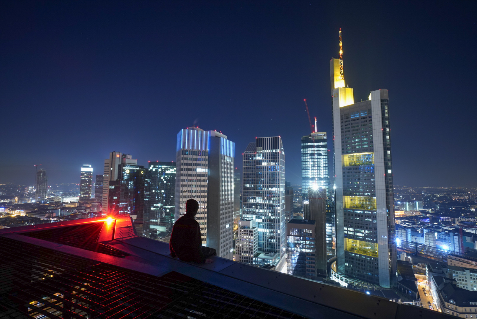 A rooftopper sits on the edge from the roof of the Winx Tower in Frankfurt, Germany.